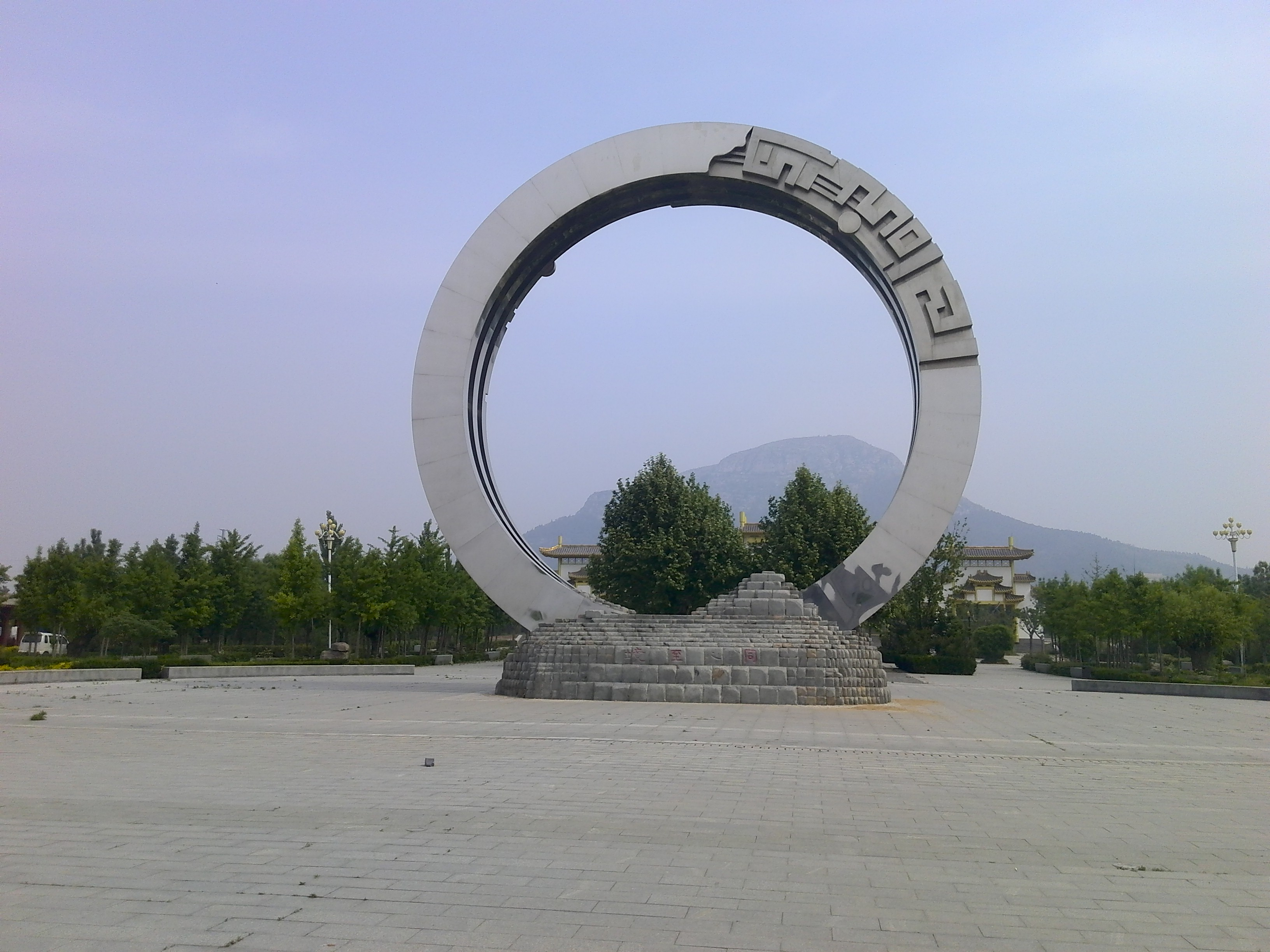 Baifoshan Park